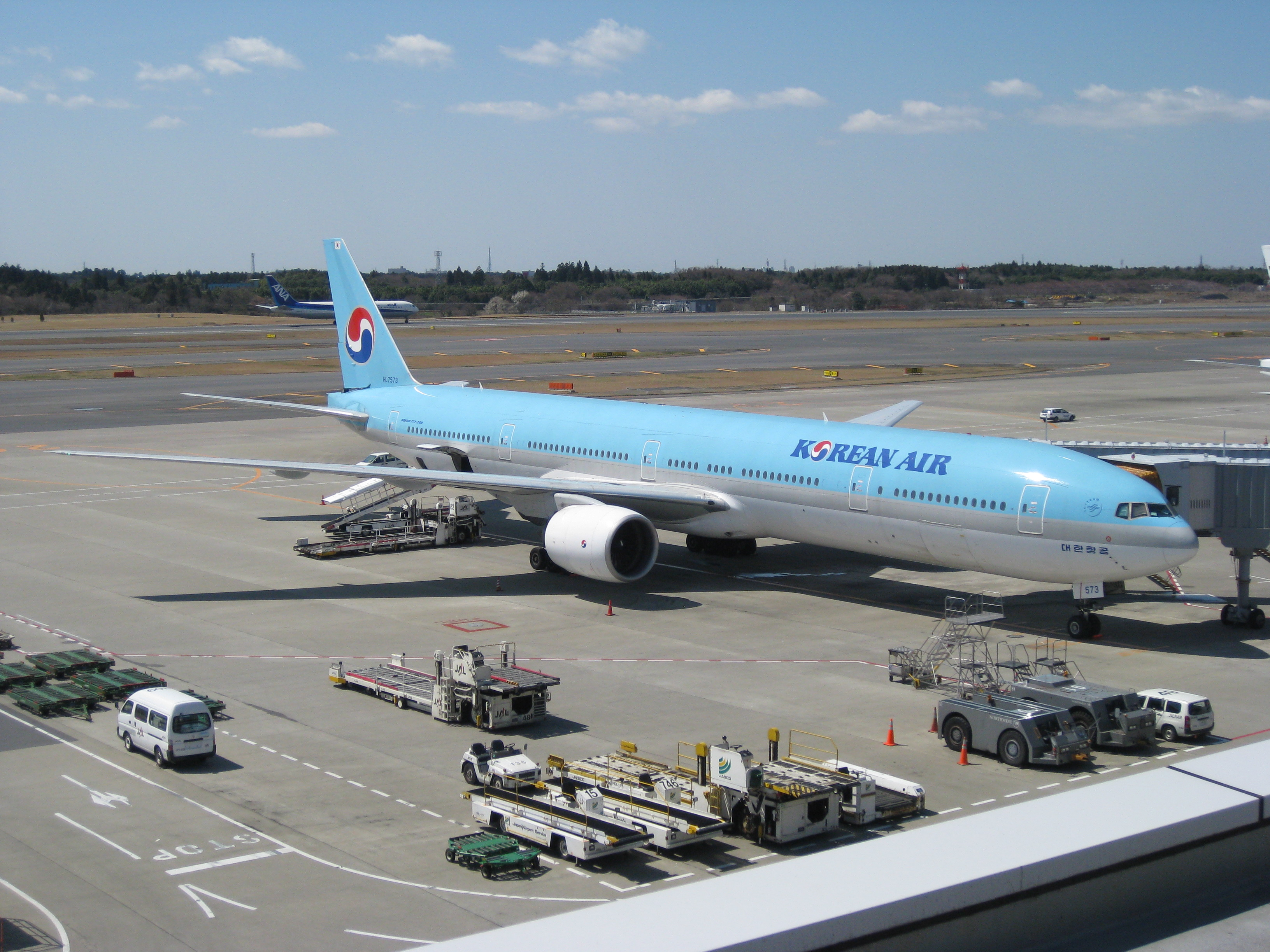 Taken in Narita